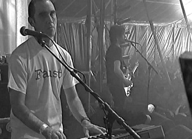 In concert with Spiritualized, 1998 (Note the Faust T-shirt.) Photo by Channel ®.